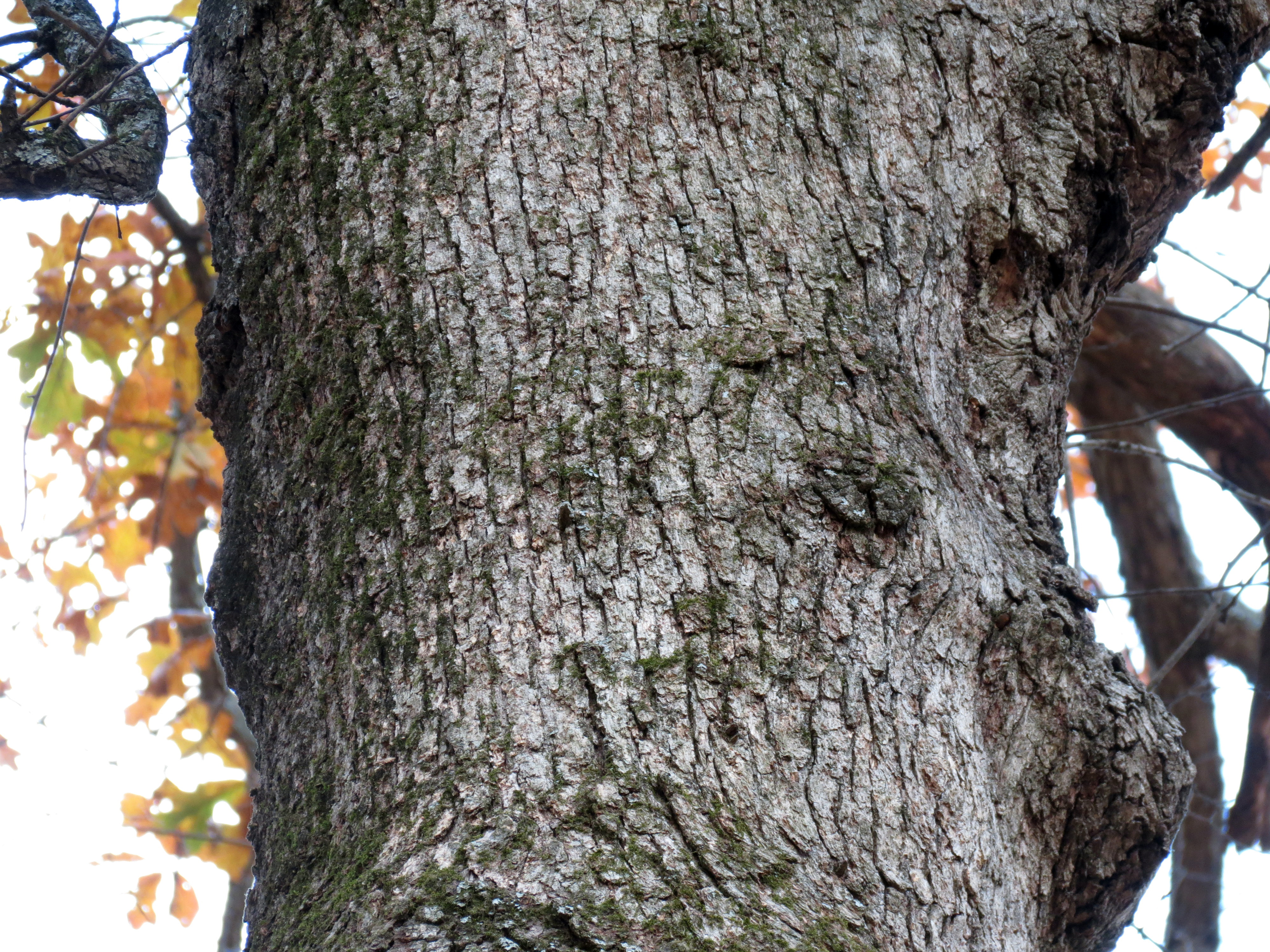 Quercus stellata. Rock Creek Park, Washington, DC, USA.